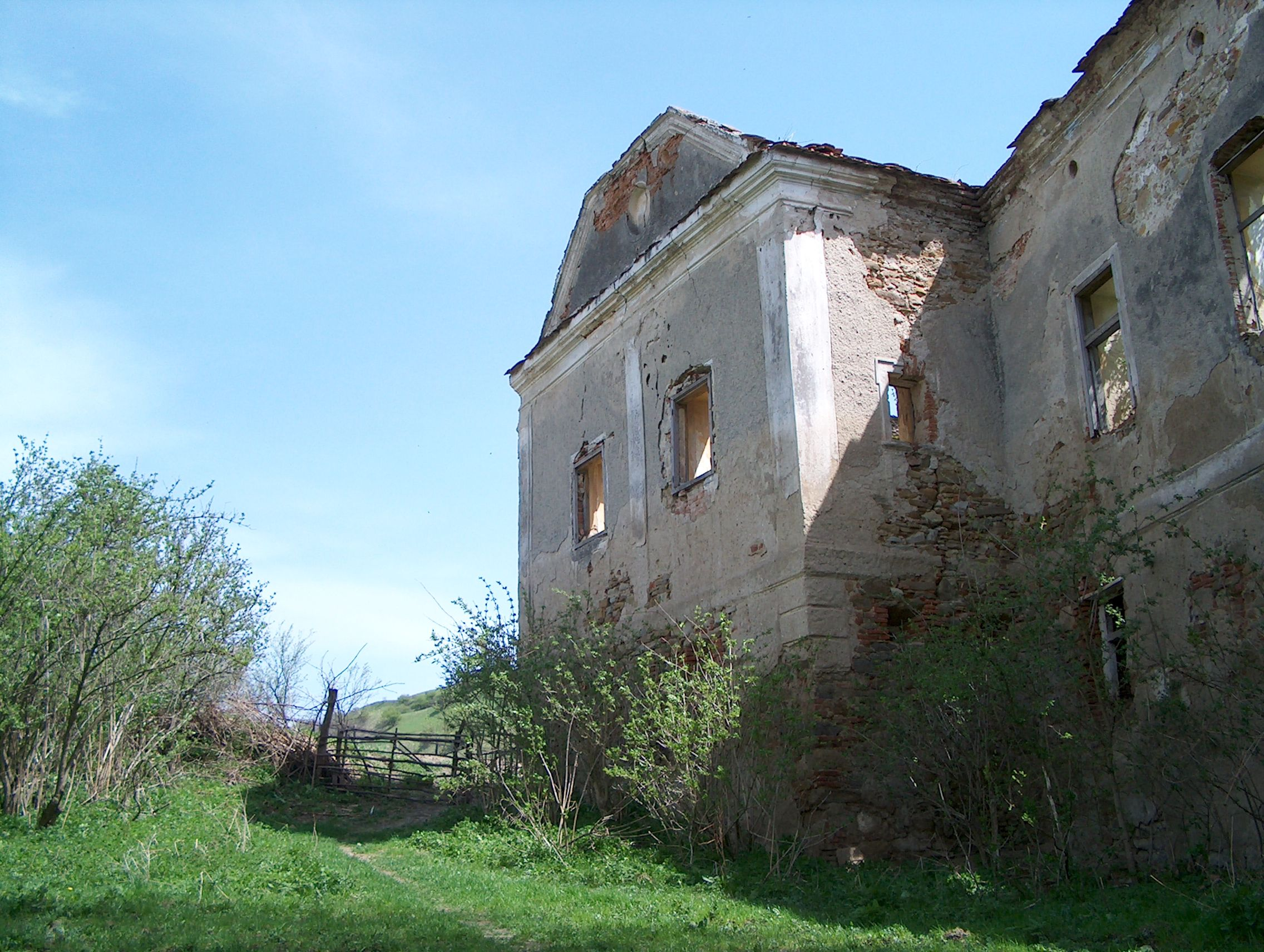 Ruins of Castle Buia, Sibiu county